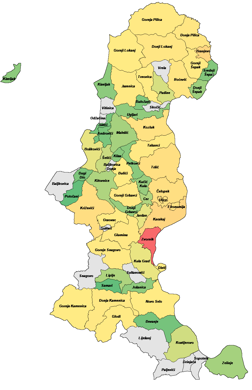 Zvornik